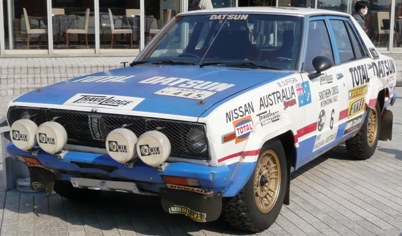 Datsun Stanza (Australia), photographed in Japan where the same model sold with "Datsun Violet" badges.